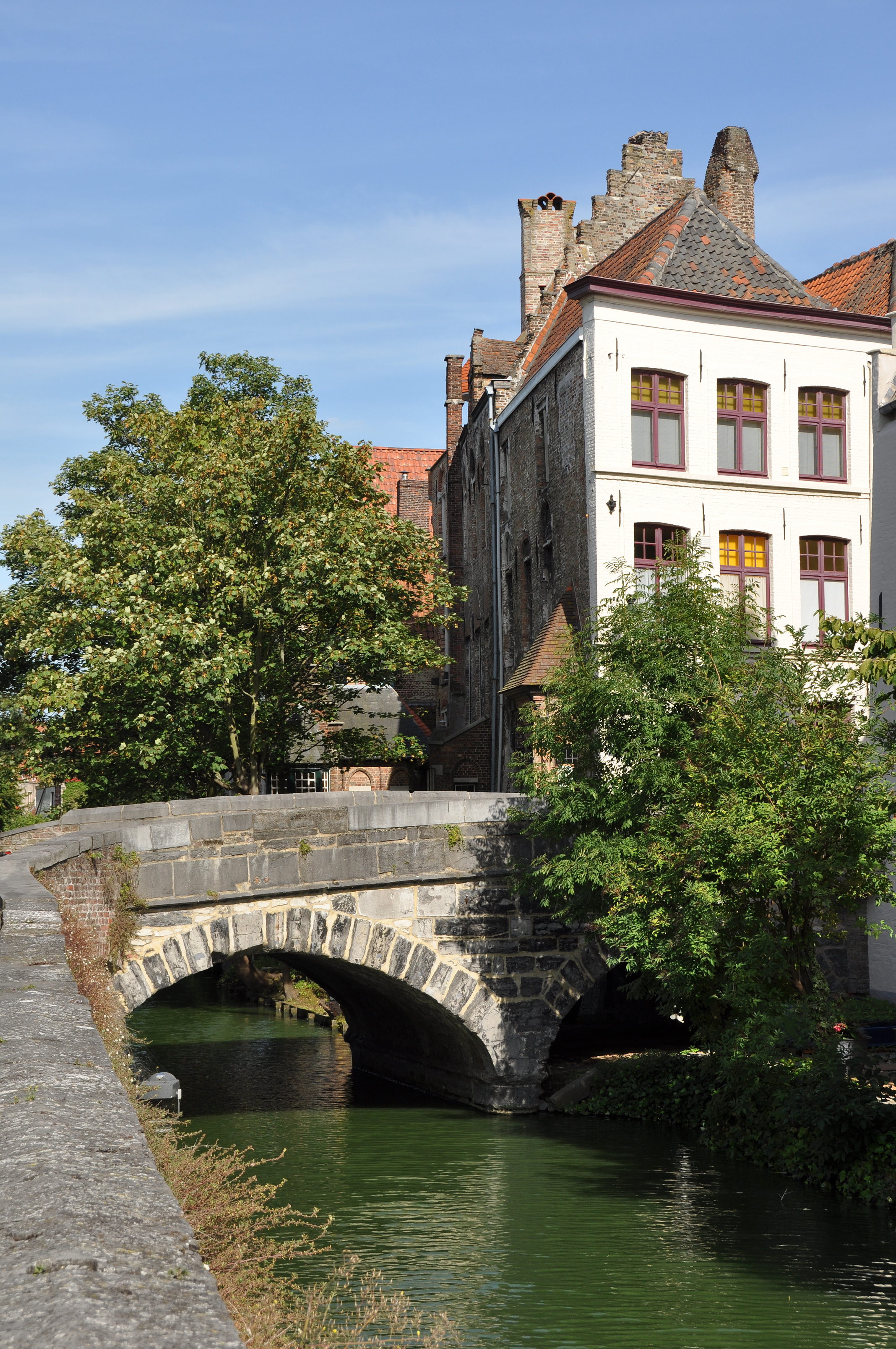 Bruges (Belgium): the Vlaming bridge